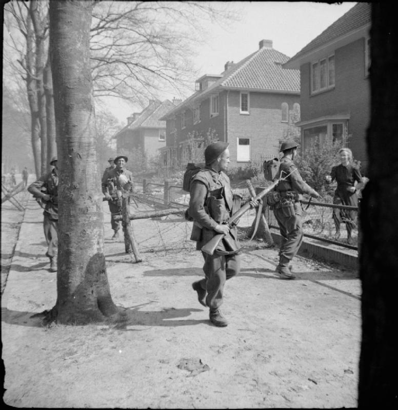 The British Army in North-west Europe 1944-45 Infantry of the 11th Royal Scots Fusiliers, 49th (West Riding) Division, searching houses in Ede in Holland, 17 April 1945.